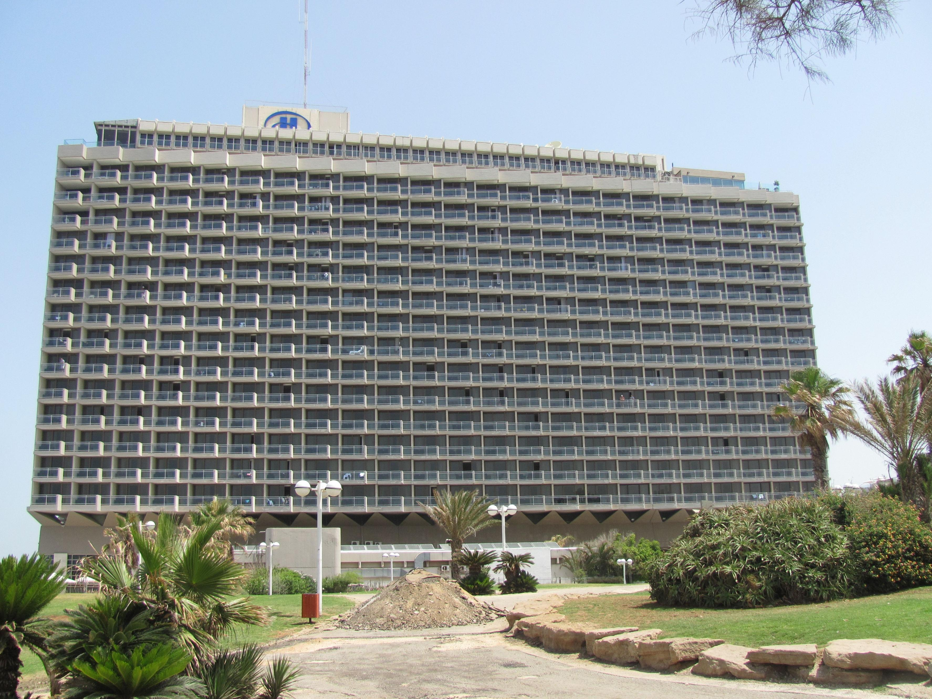 Hilton Tel Aviv hotel.